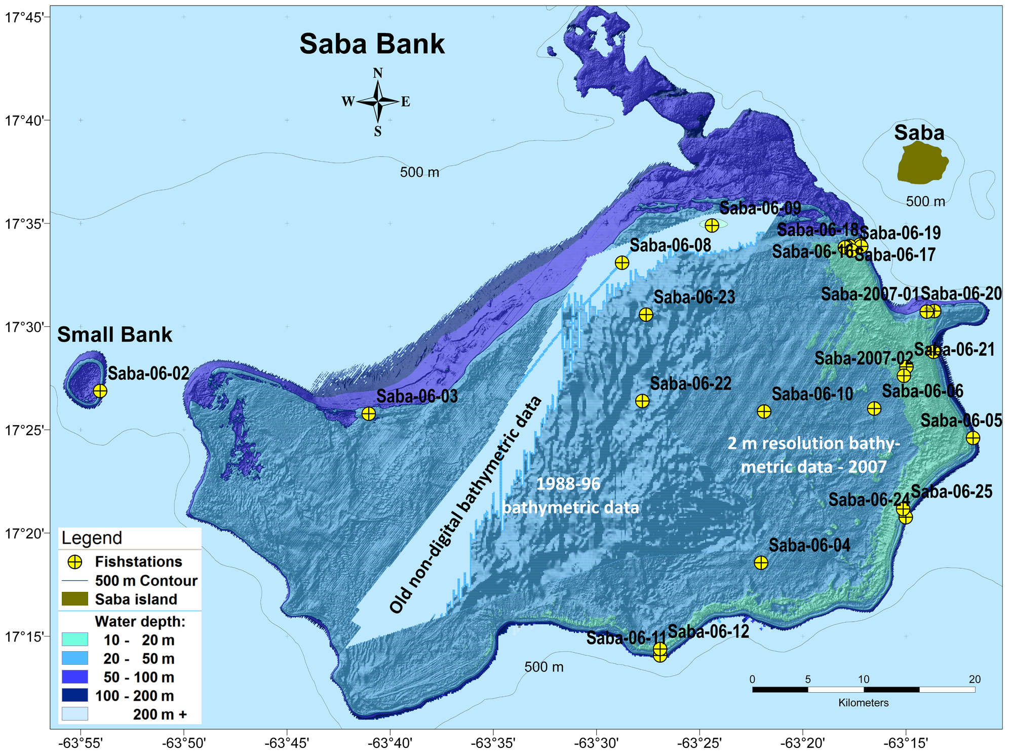 Bathymetric map of Saba Bank with fish stations marked Different fish stations at 25 locations were studied during a rapid assessment (RAP) survey (2–16 January 2006) 20 ichthyocide stations 12 roving visual surveys Two hook & line stations Five by-catch stations from lobster traps Two fish-ichthyocide stations were occupied at two additional locations on 20 June 2007 Specimens collected during the RAP survey were preserved as vouchers and processed into the [ National fish collection] (USNM) of the National Museum of Natural History (NMNH), Smithsonian Institution (SI) Online available at: As many species as possible were also tissue sampled and photographed in the field